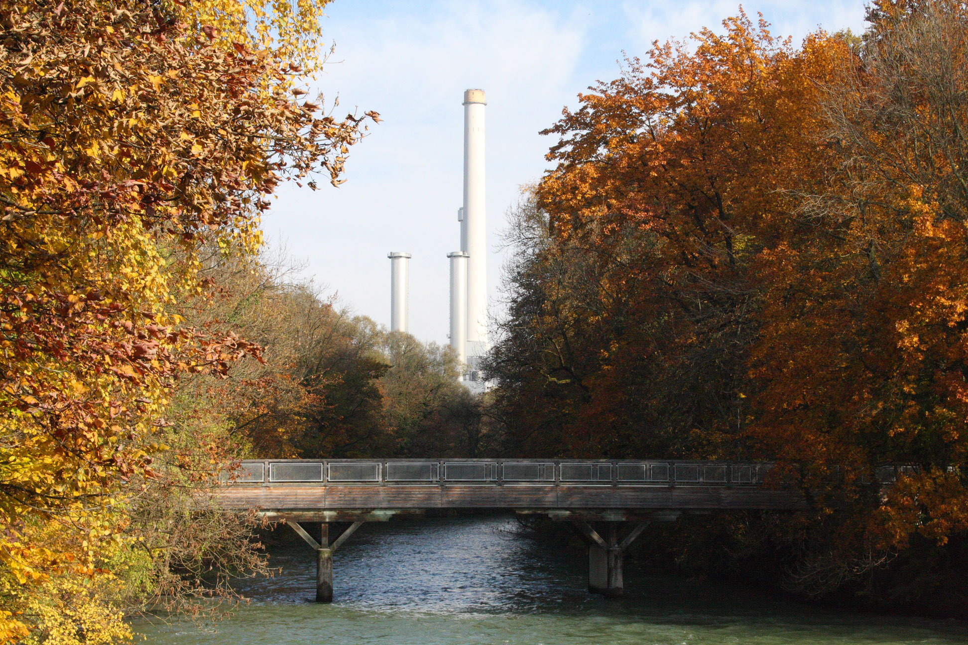 Schinderbrücke, Munich